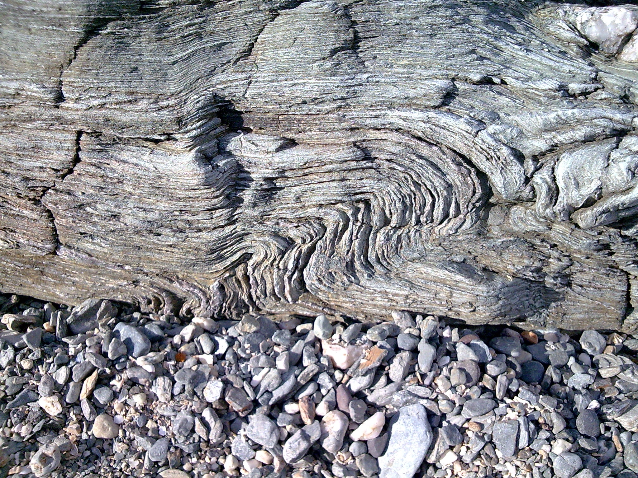 A small rock fold, taken on a rocky beach on Holy Island, Wales.